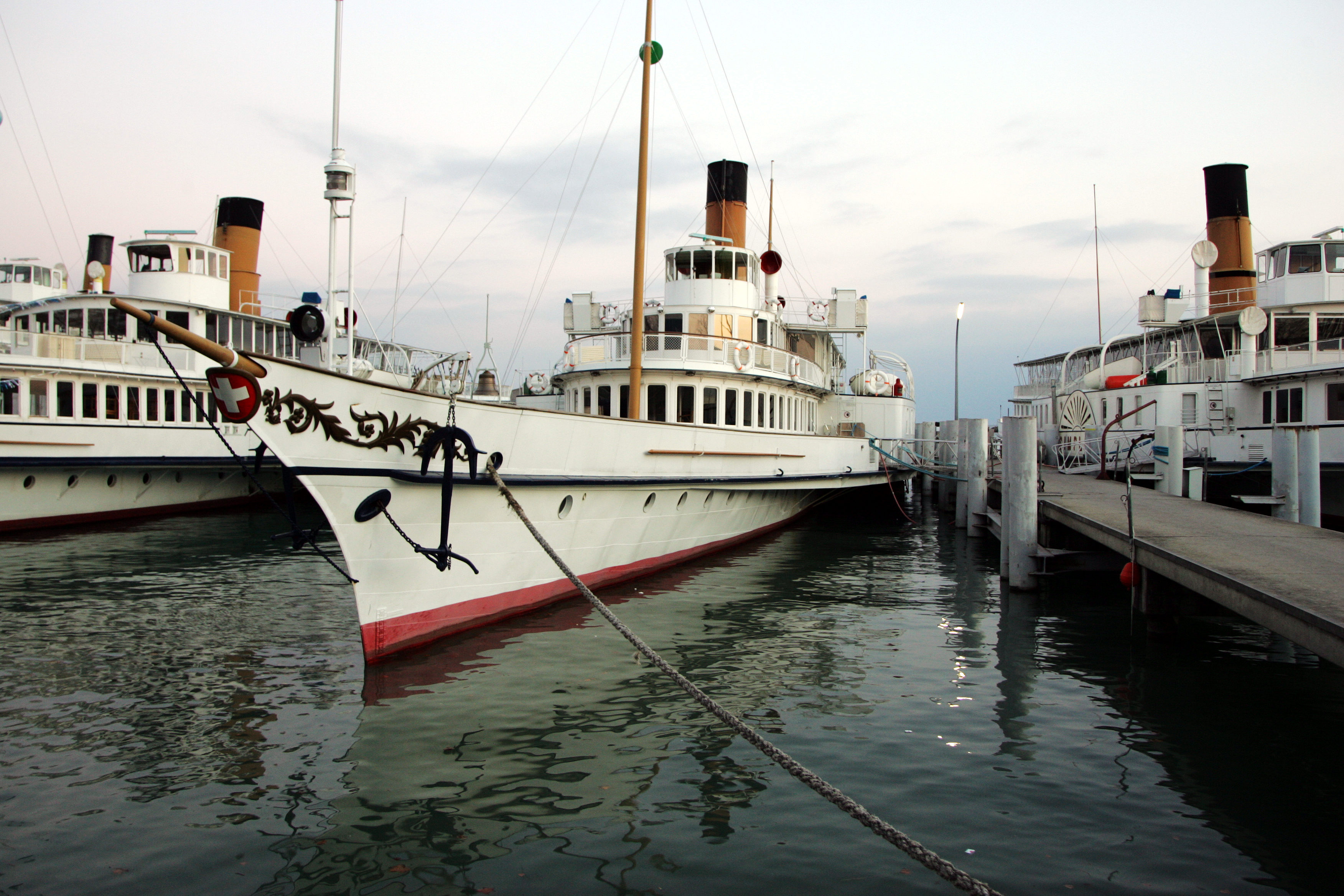 Ships of the Compagnie Générale de Navigation sur le lac Léman moored in Lausanne. Centre: Montreux; right: Simplon